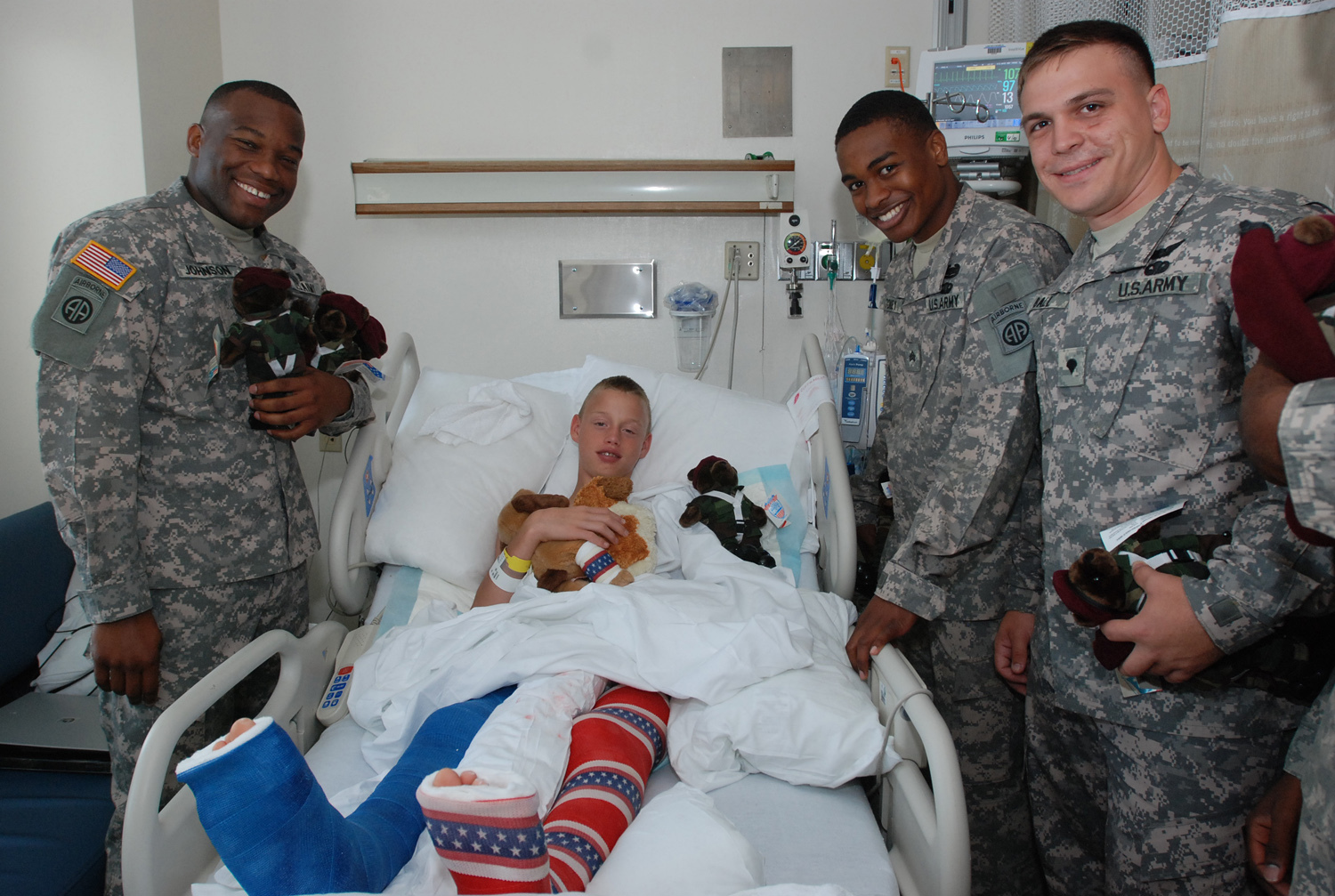 Zach Lavy of Convoy, Ohio, a patient at Riley Hospital for Children in Indianapolis, Ind., receives an "Airborne" teddy bear from Sgt. James Johnson (left), Sgt. Julius Toney, and Spc. Alan Ball, of the 82nd Airborne Division Chorus, Aug. 21. The chorus performed songs and visited sick children at two area children's hospitals while in town for the 82nd Airborne Division Association Convention held in Indianapolis, Aug. 19-22.